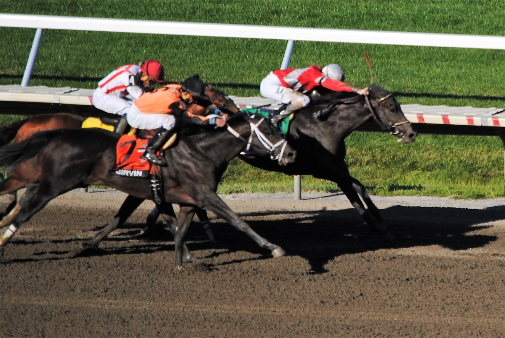 Nearing the finish line of the 2017 Haskell Invitational. McCraken on the rail has a narrow lead but Girvin is closing ground on the outside and will win in a photo finish. Almost hidden in between is Practical Joke in third